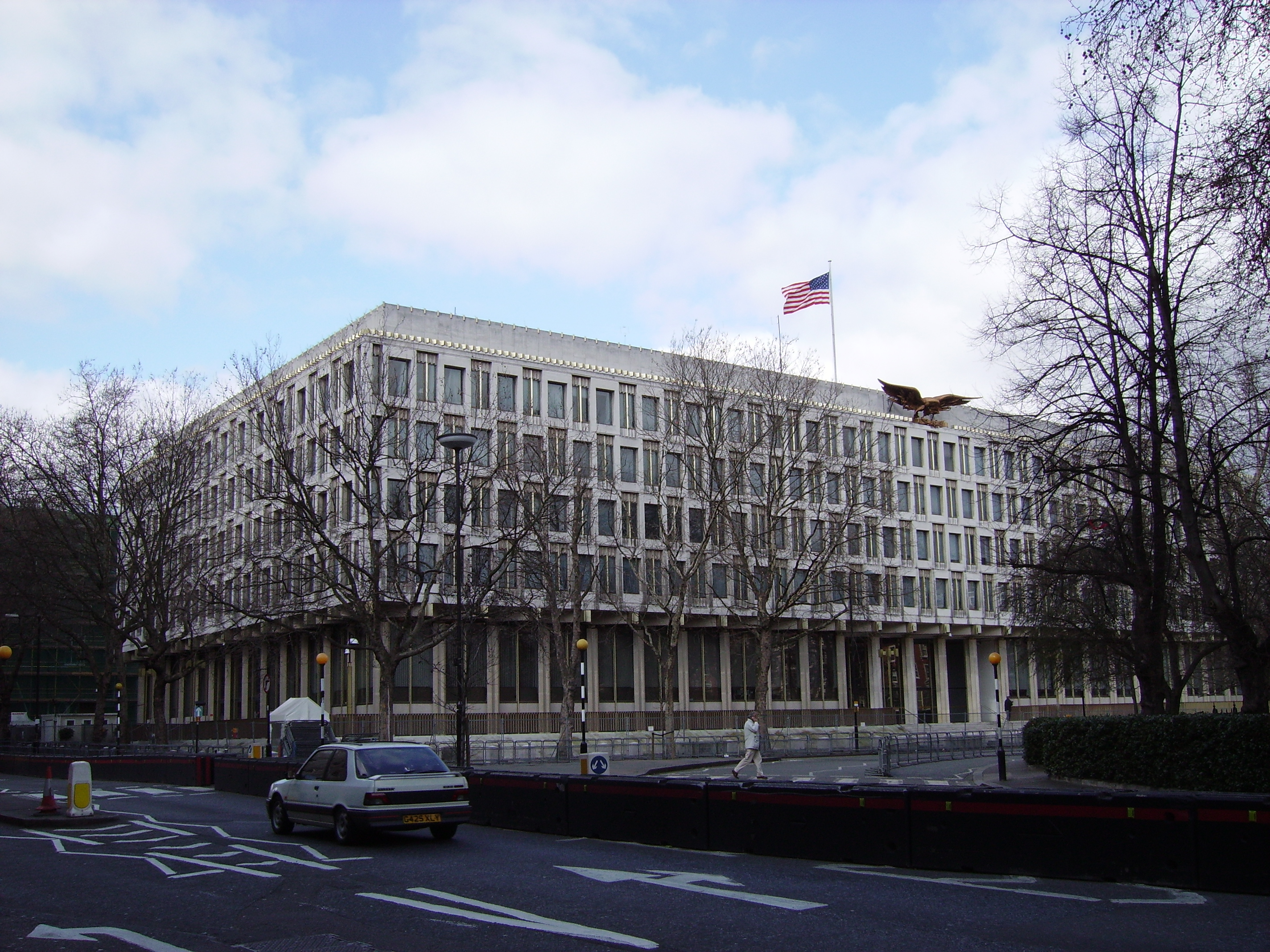 Digital photograph taken by me, Veedar, of the US Embassy in London, on the 9th April 2006.